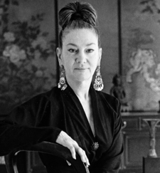 Portrait of Leona Wood